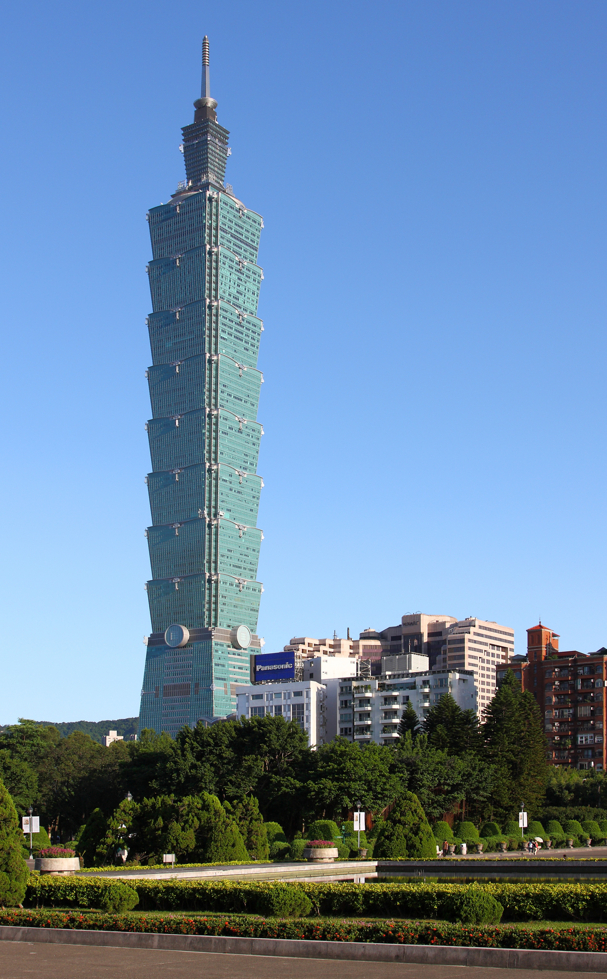 Taipei 101 as seen from Sun Yat Sen Memorial Hall